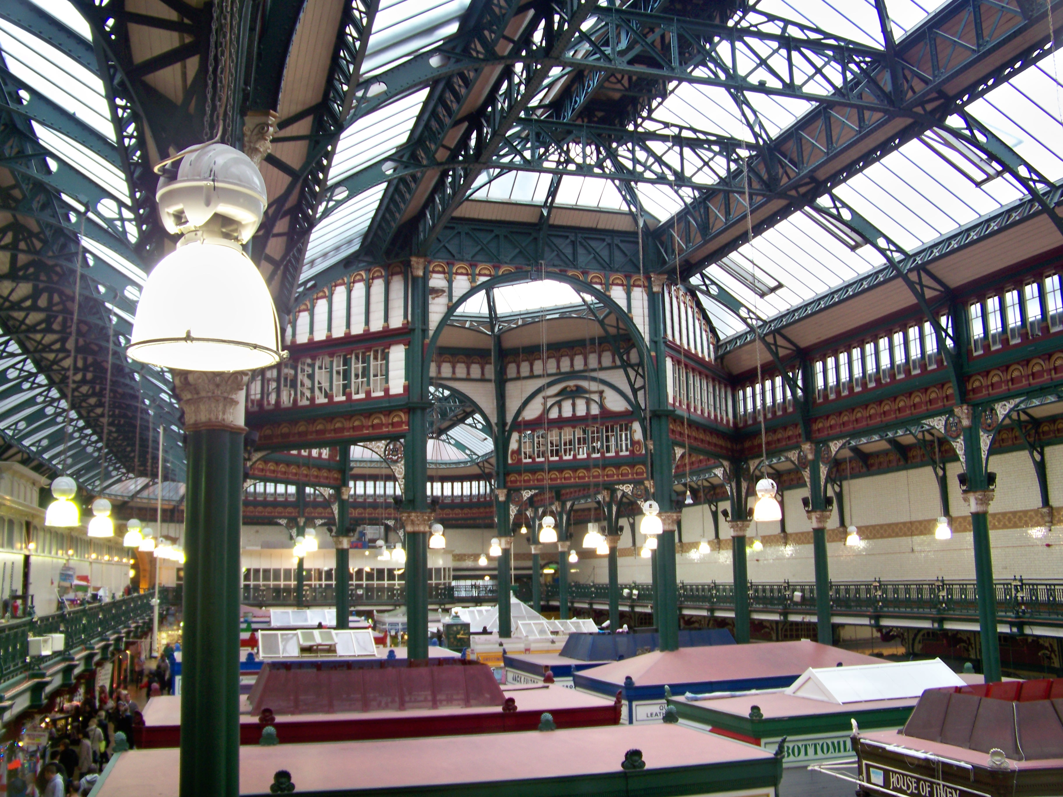 The interior of the Edwardian parts of the Kirkgate Markets in Leeds, taken from the perimeter balcony. Taken on the afternoon of Saturday the 3rd of October 2009.